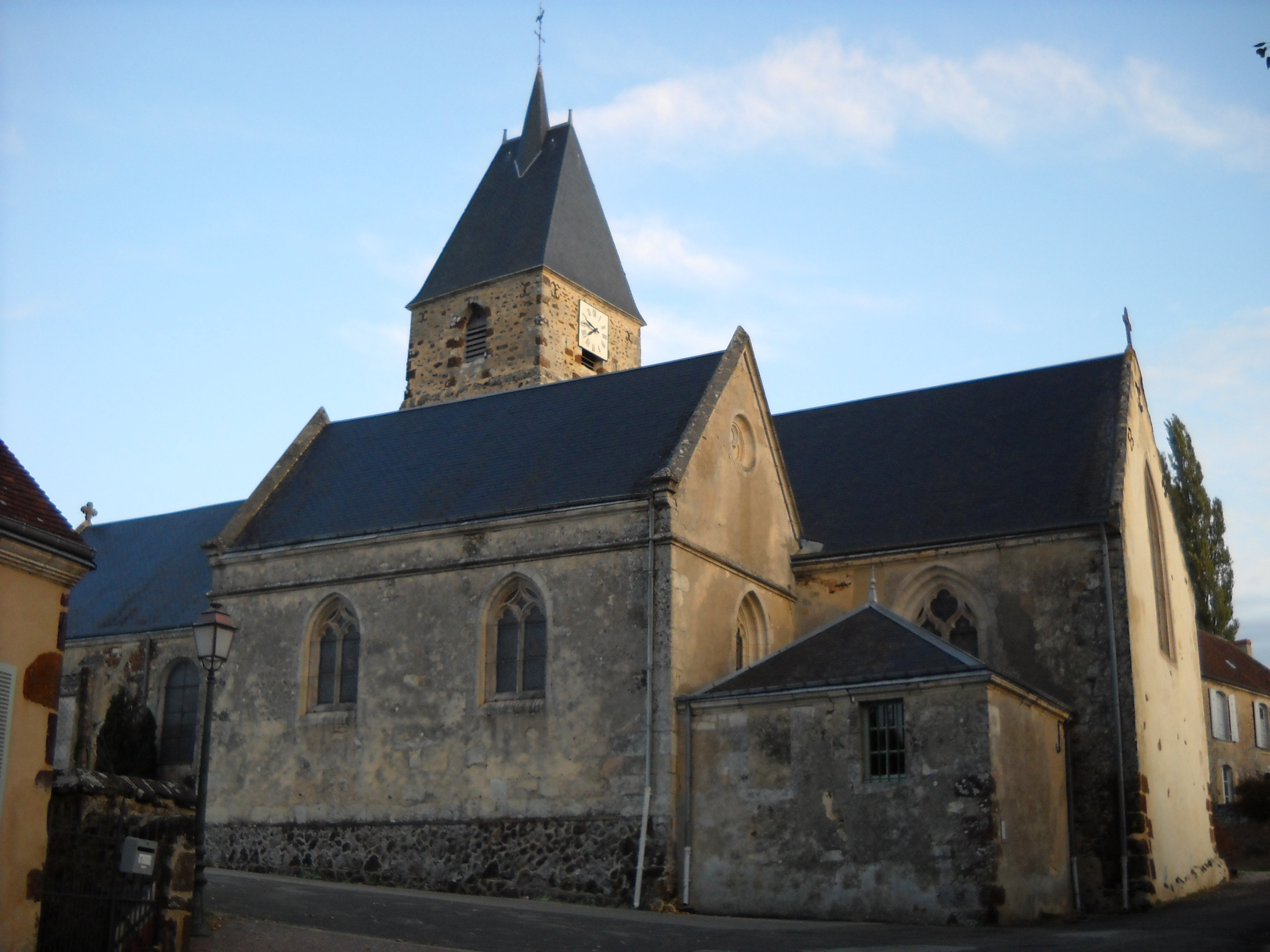 The church of La Perrière, Orne, France.